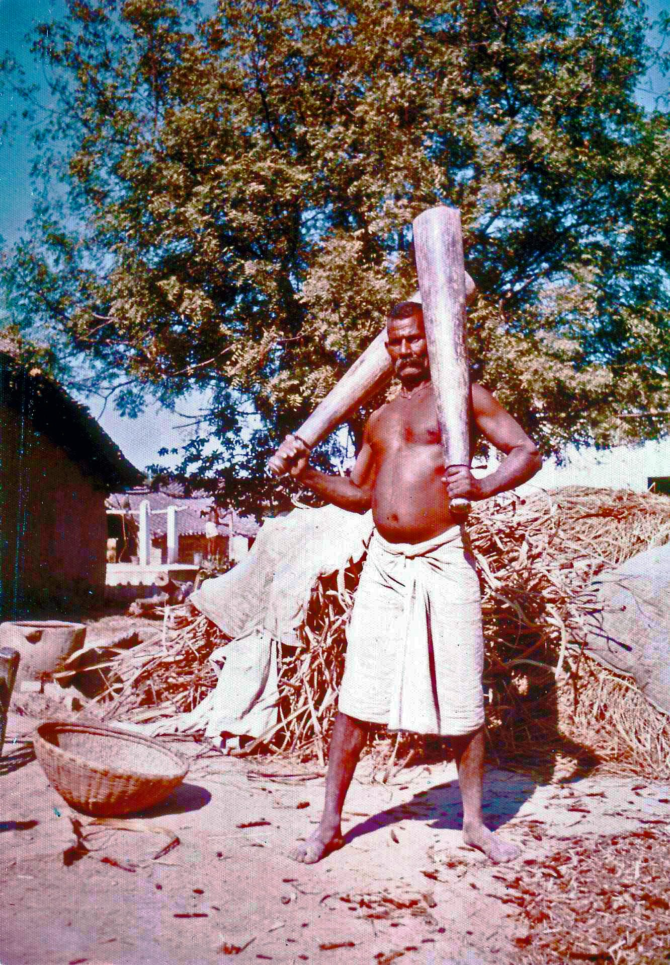 I took this photo in a village near Varanasi, India in 1973.